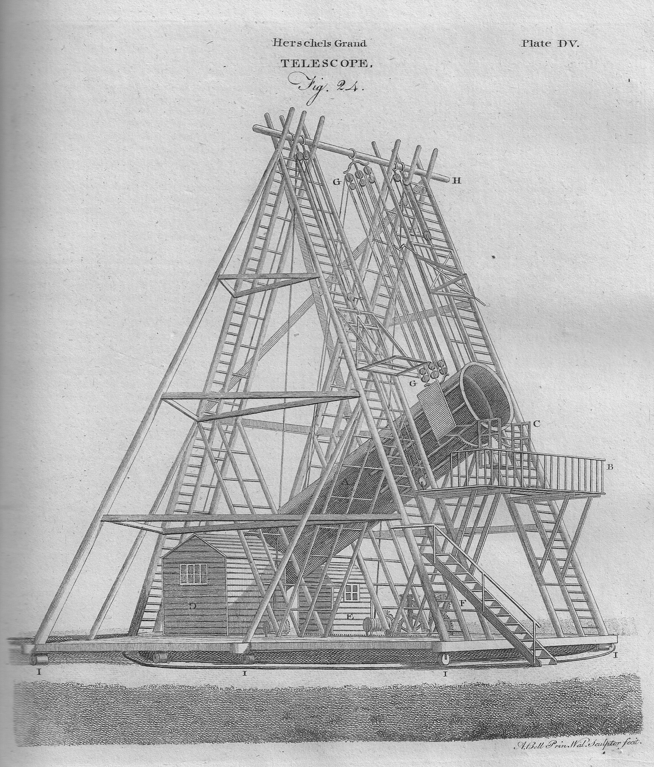 An illustration from the 1797 edition Encyclopaedia Britannica Volume 18 of William Herschel's 120 cm (48-inch) reflecting telescope with a 12 m (40 foot) long focal length, also called his "40-foot telescope". The telescope was constructed between 1785 and 1789 at Observatory House in Slough, England and was the largest in the world for 50 years. It was dismantled in 1840.